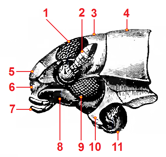 other version of Gyrinus Head1.jpg